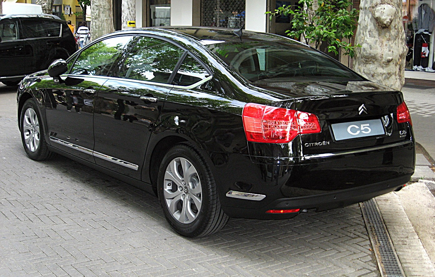 Subject:Citroën C5 Sedan Author:Luc106 Date:May 4th, 2008 Event:"L'Isola dei Motori 2008" Place/Country: Bellaria (RN), Italy I release all rights in the public domain.